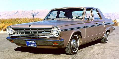 1965 Canadian Valiant Custom 200 sedan